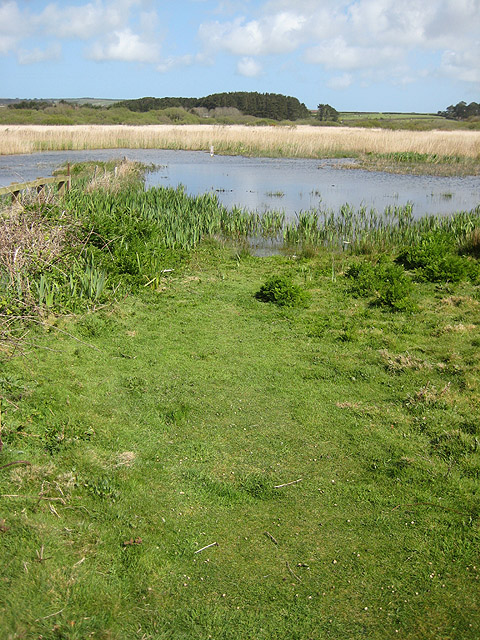 Marazion Marsh Reserve This reserve contains Cornwall's largest reedbed. It is probably best known for its annual influx of Aquatic warblers and Spotted crake.